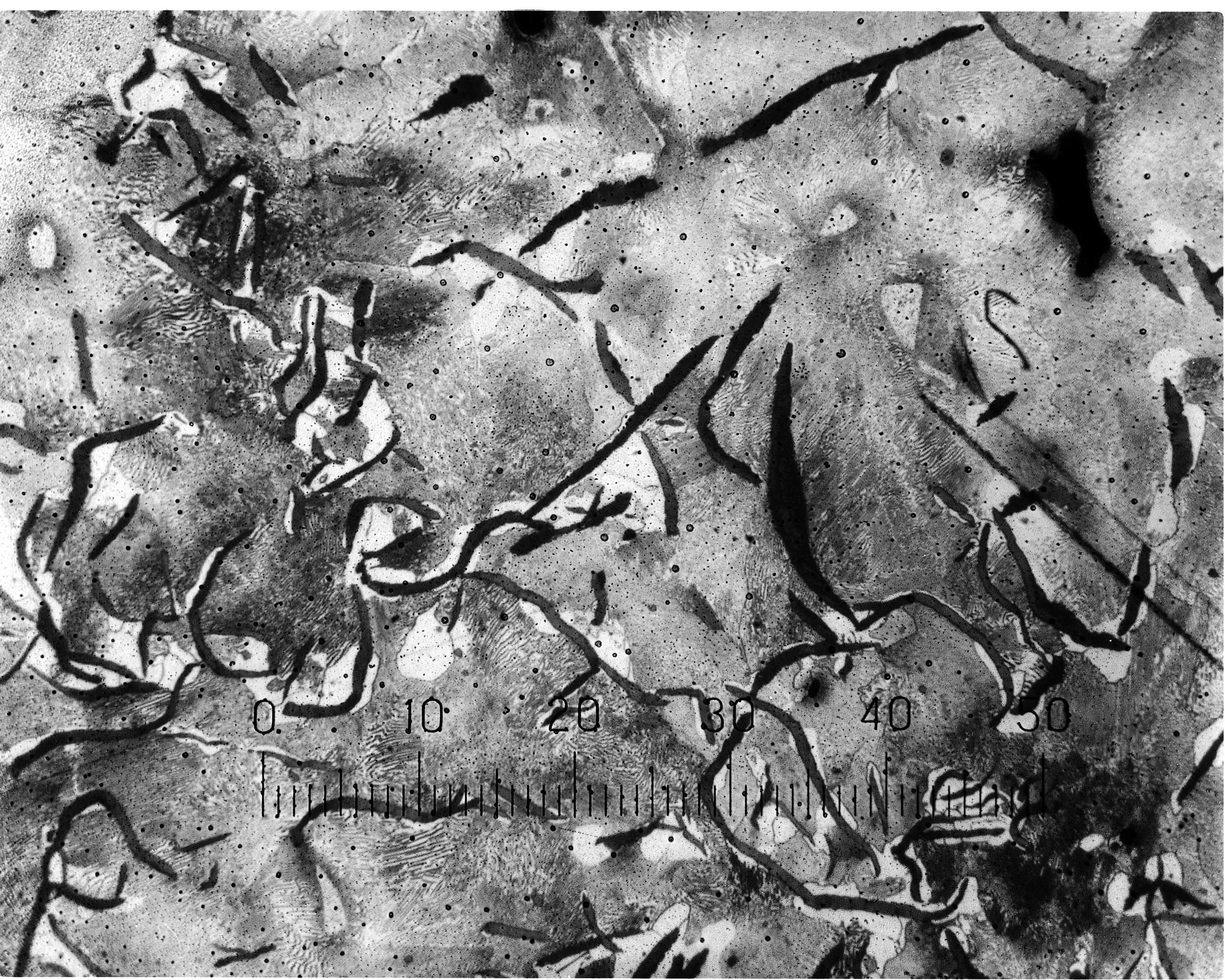 Micrograph of grey cast iron; the structure is interspersed by black flakes of lamellar graphite